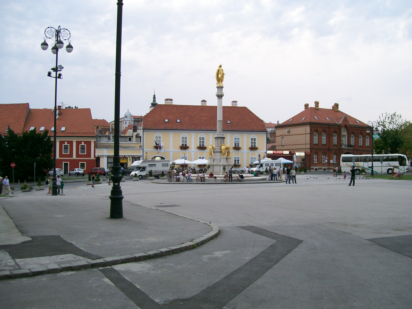 Kaptol, a neighborhood of Zagreb, looking in front of the Zagreb cathedral